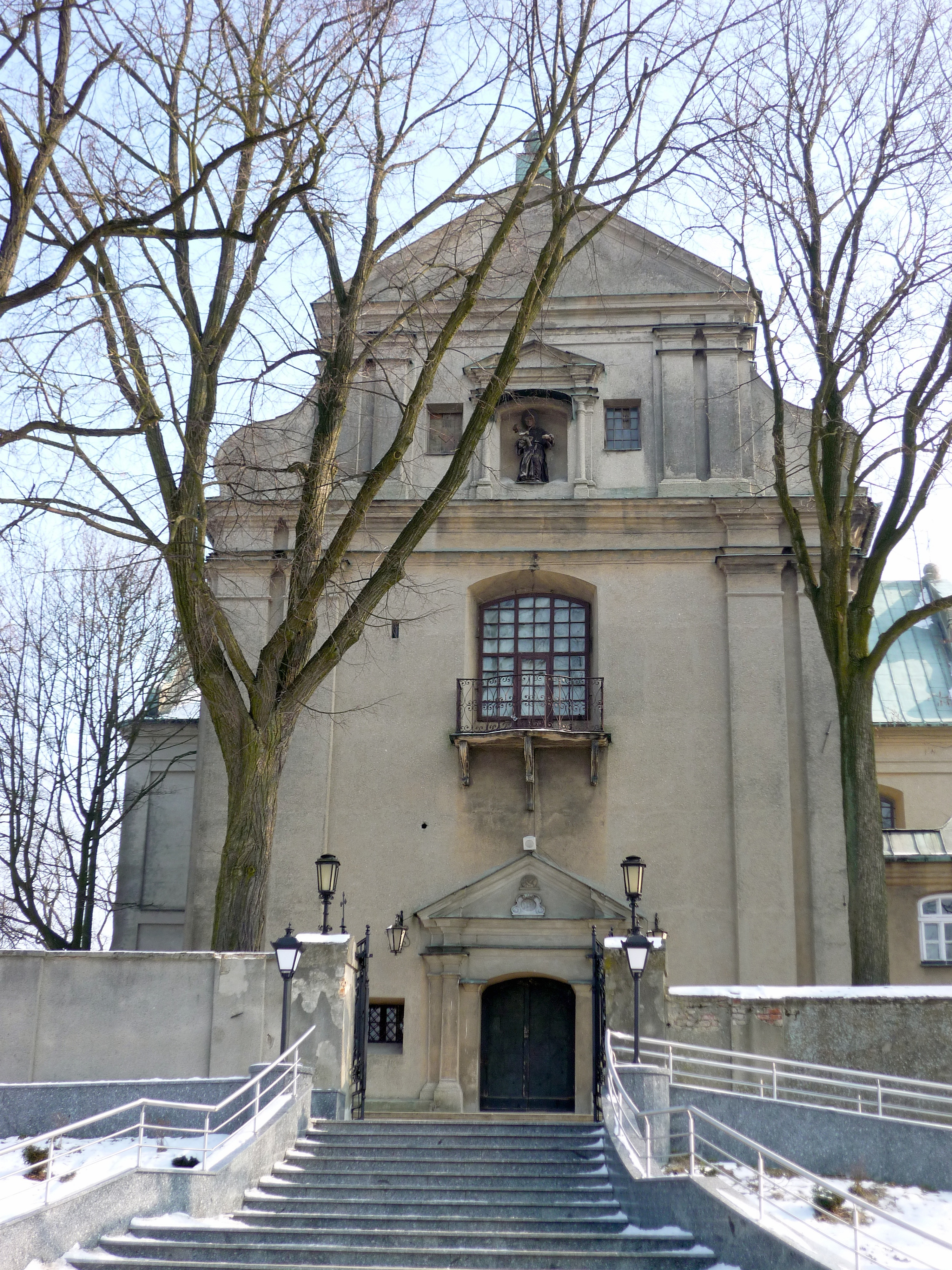 Łódź-Łagiewniki (Poland), St. Anthony of Padua Church - a view from the west side